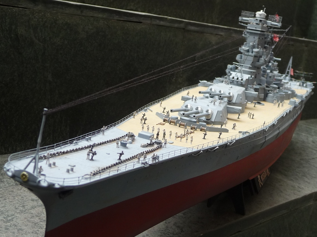 IJN Musashi